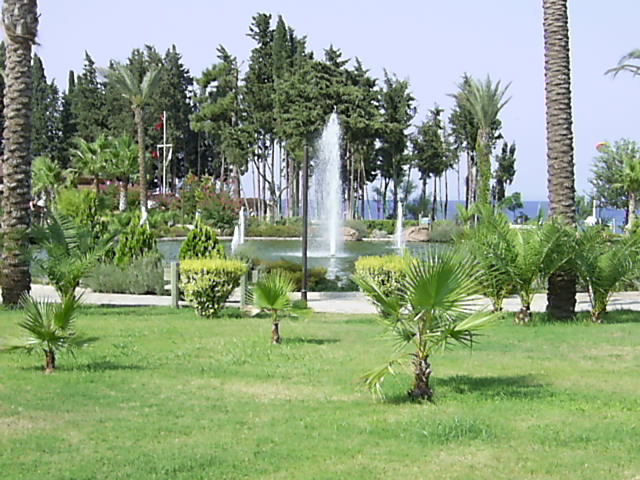 The city center park in Kemer, Turkey, 2005. Self-made by Timea Baksa